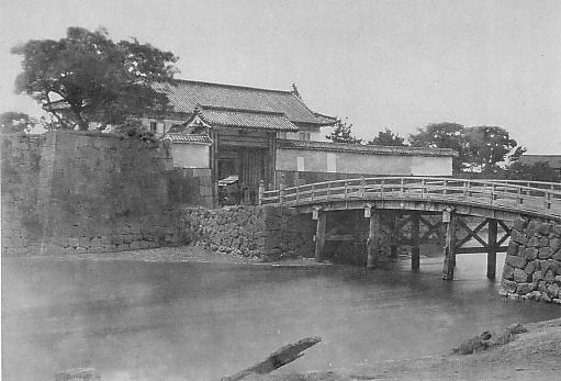 Gohukubashi-Mon(now defunct gate)